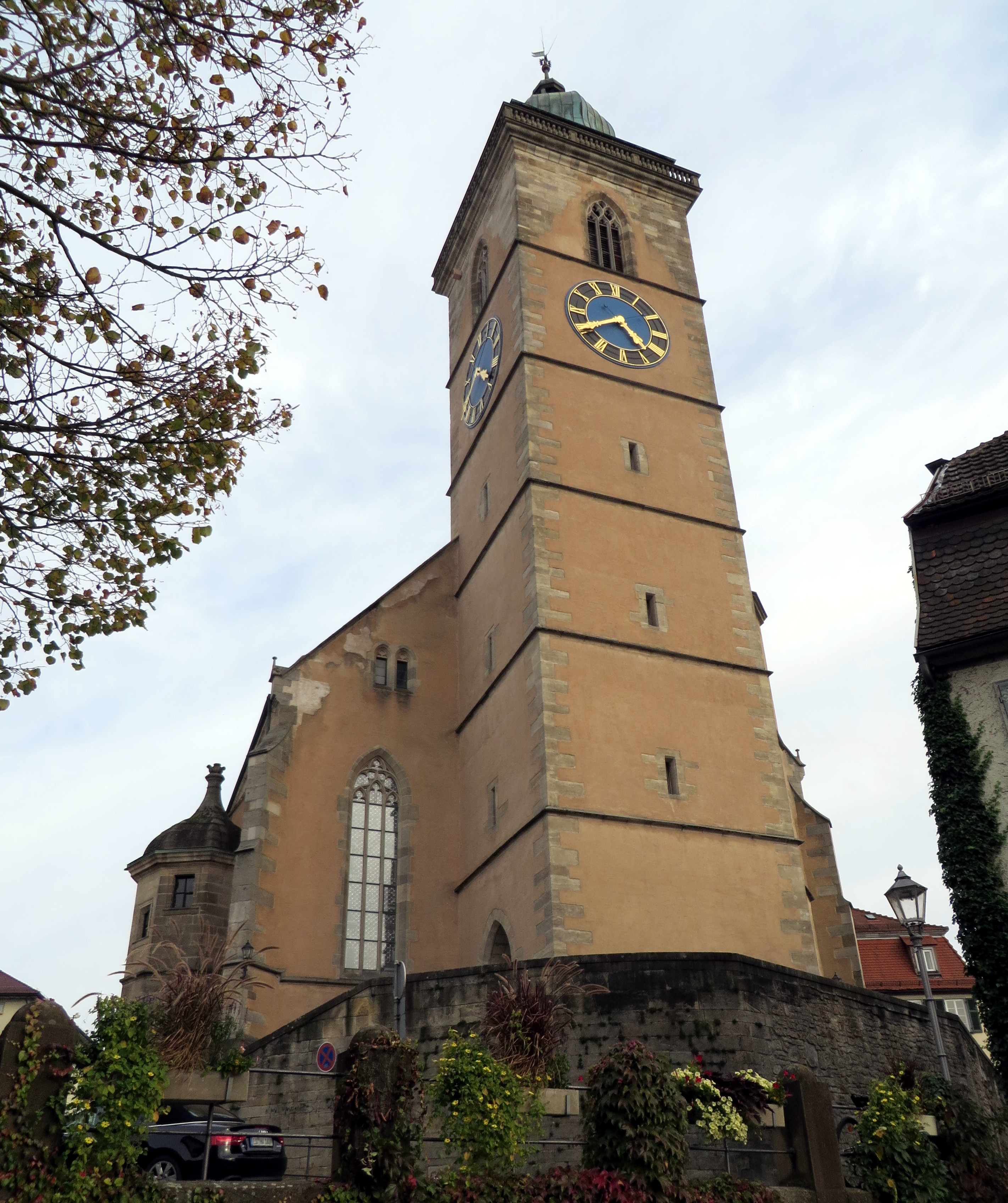 Stadtkirche St. Laurentius in Nürtingen, Deutschland mit Blick auf die Westfasade mit Turm